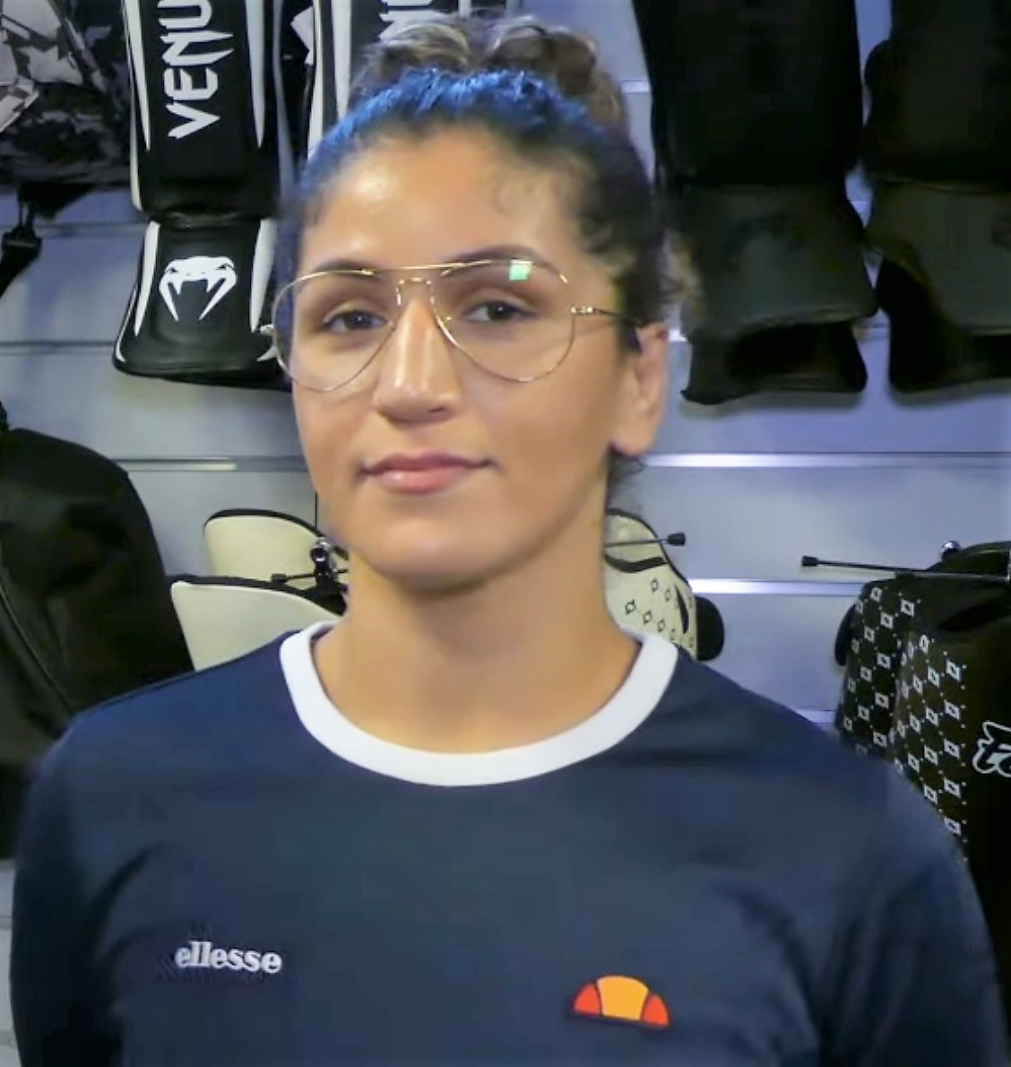 Pannie Kianzad going all out in Rose-Clark rematch in Russia: "If I die, I die" PANNIEKIANZAD #UFCMOSCOW #JESSICAROSECLARK MMAnytt got the chance to speak with TUF finalist and Swedish MMA star Pannie Kianzad ahead of her rematch with Jessica Rose-Clark at UFC Moscow on November 9th. She spoke about her road getting back to the UFC, her fan base, what it's like to have your boyfriend as your main training partner, female BMF fights and much, much more! Visit Europe's biggest MMA website Follow us on our Social Media channels: Facebook: Instagram: Twitter